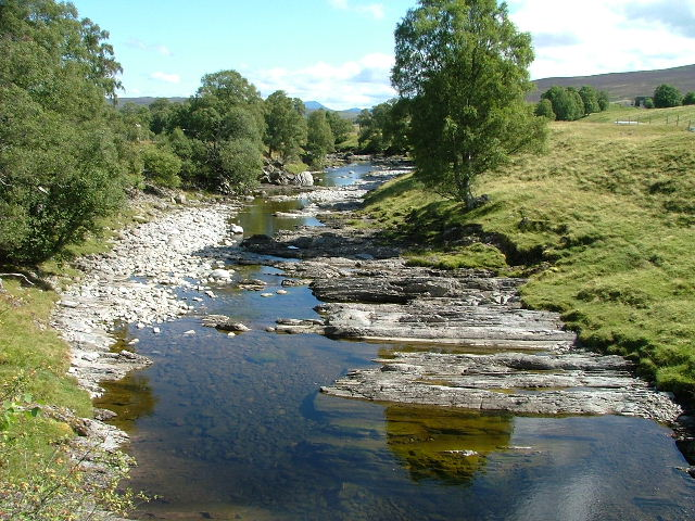 River Garry at Dalnacardoch. Looking east.